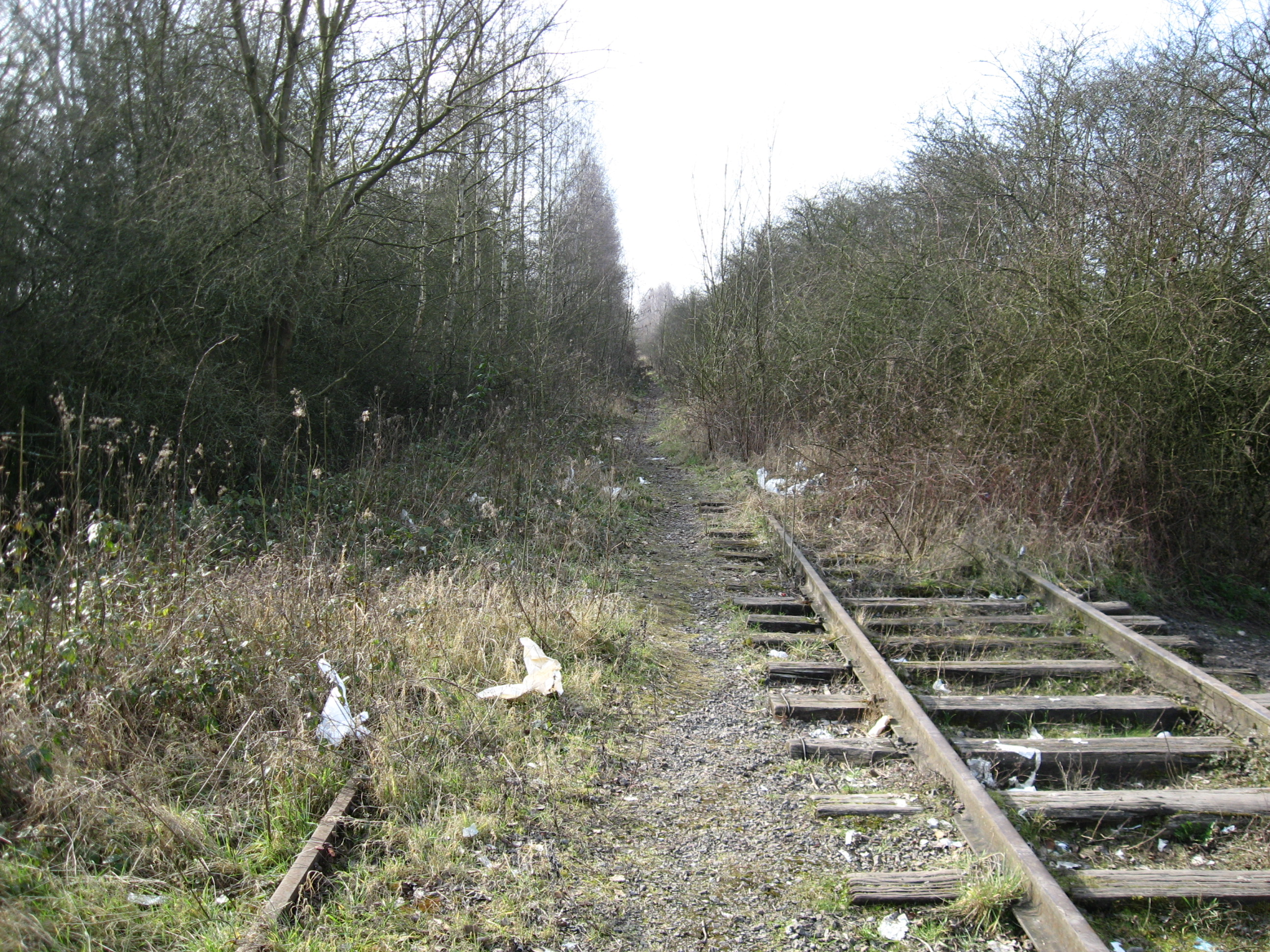 The actual border, looking toward France on the line Mons Valenciennes. 2008